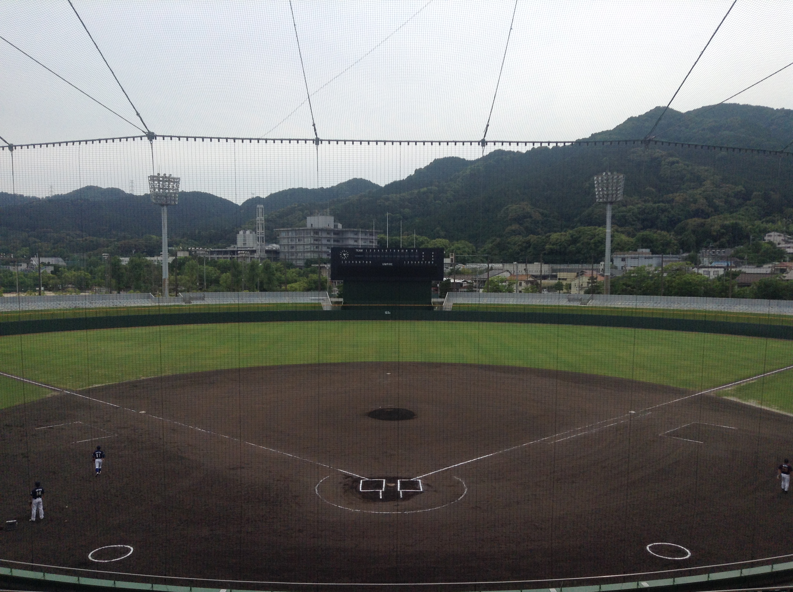 Ojiyama Baseball Stadium